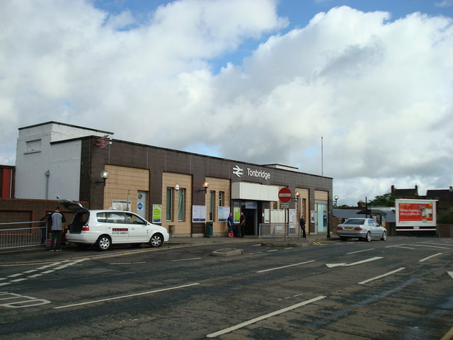 Tonbridge Railway Station